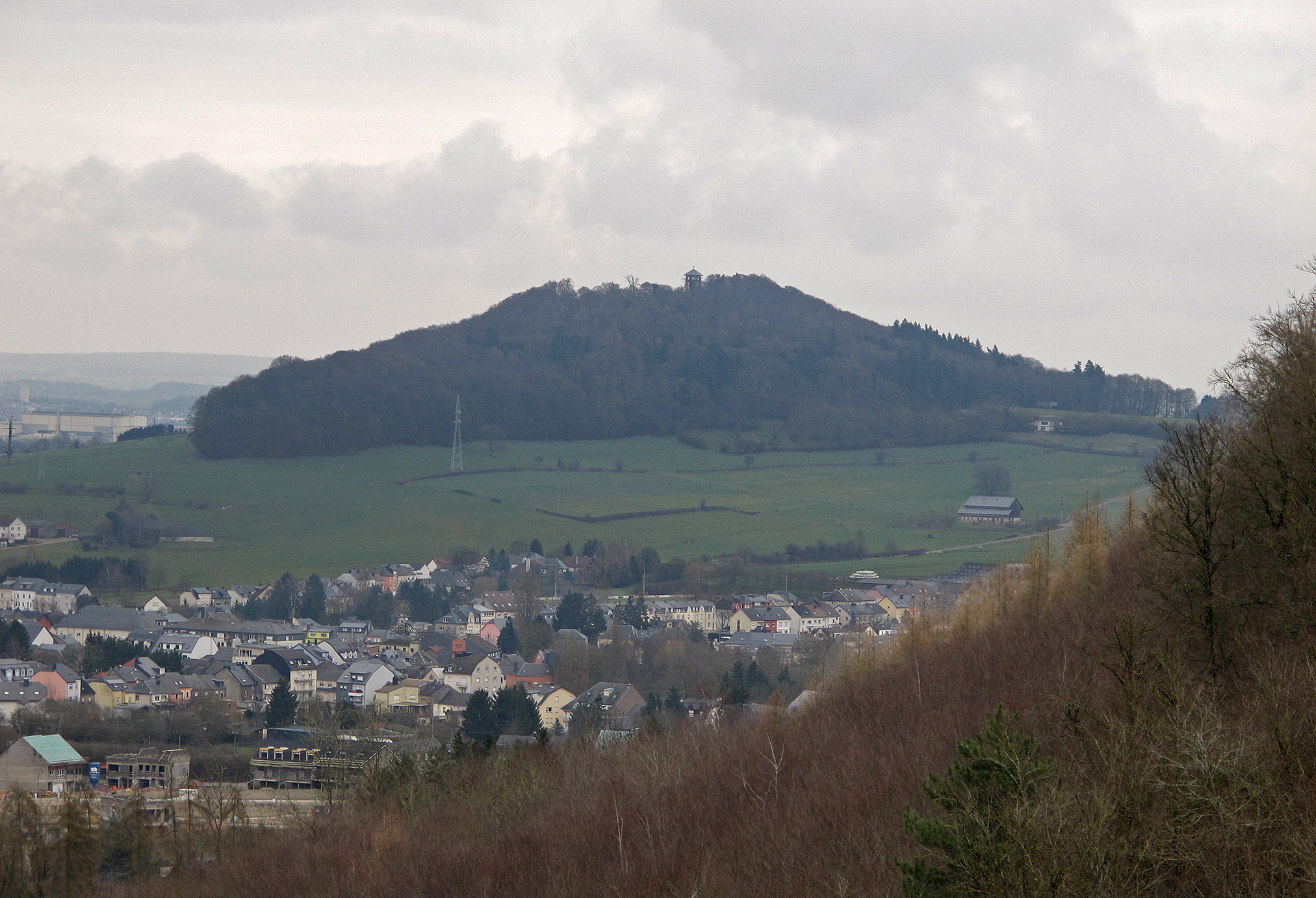 Mount St. Jean (Gehaansbierg) in Dudelange, Luxembourg, seen from Bromeschbierg near Kayl